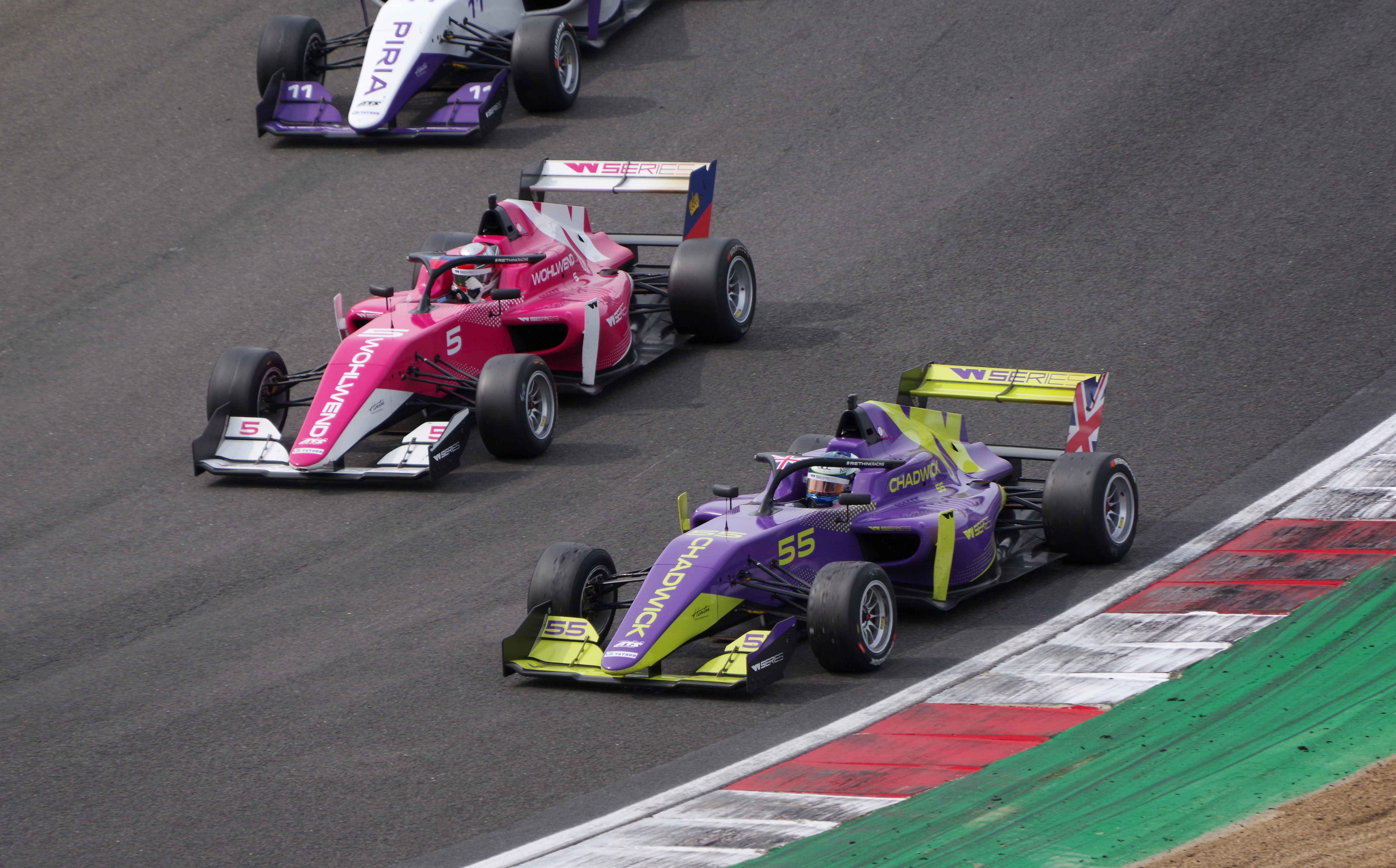 The slowing-down lap of W Series at Brands Hatch. Jamie Chadwick and Fabienne Wohlwend.